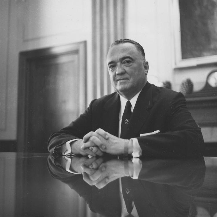 John Edgar Hoover, director of the Federal Bureau of Investigation, is shown in this May 1959 photograph.